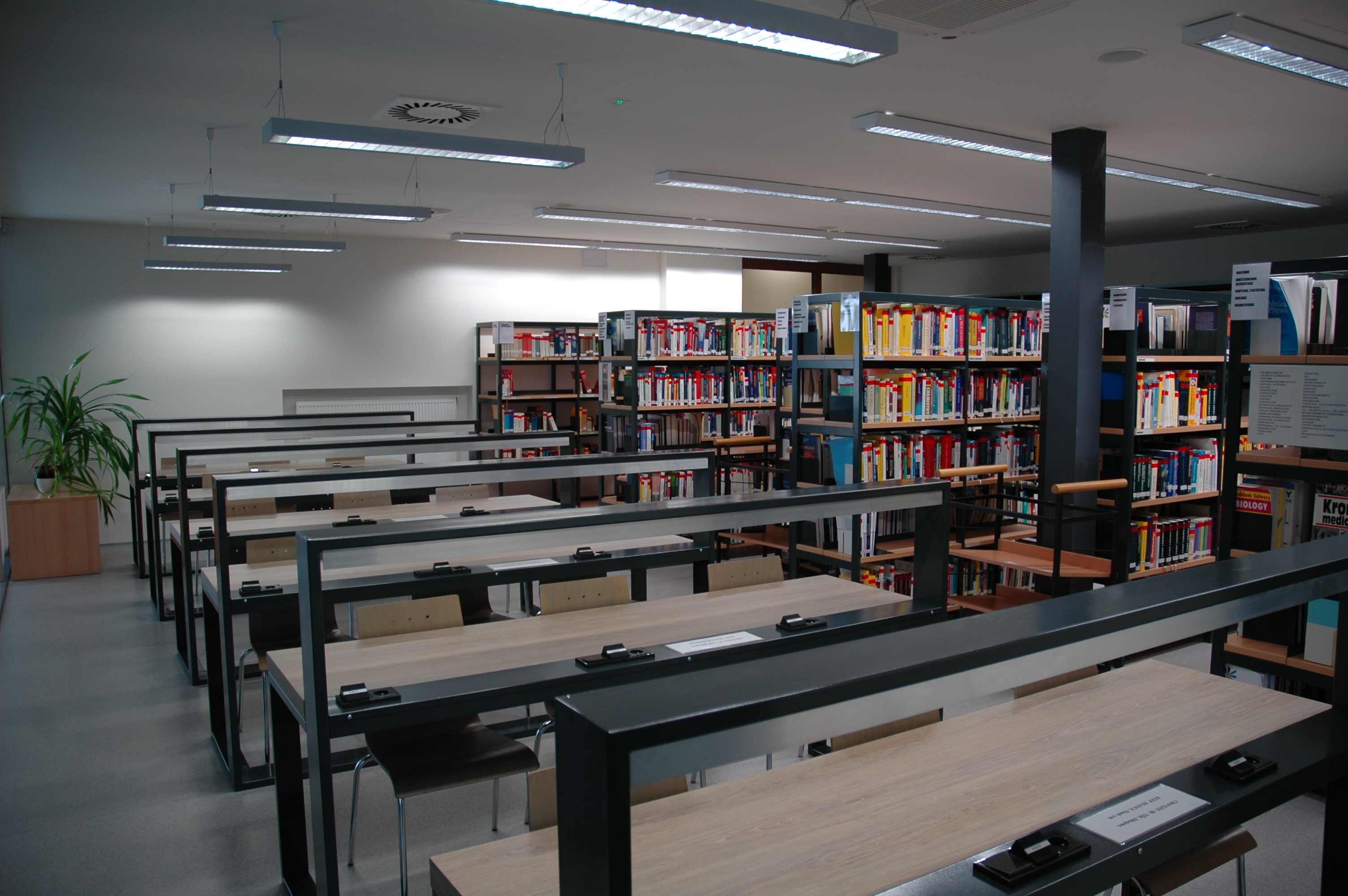 Medical faculty library is situated in the new compound of Theoretical Institutes at the Faculty of Medicine and Dentistry, Palacký University in Olomouc, Czech Republic.